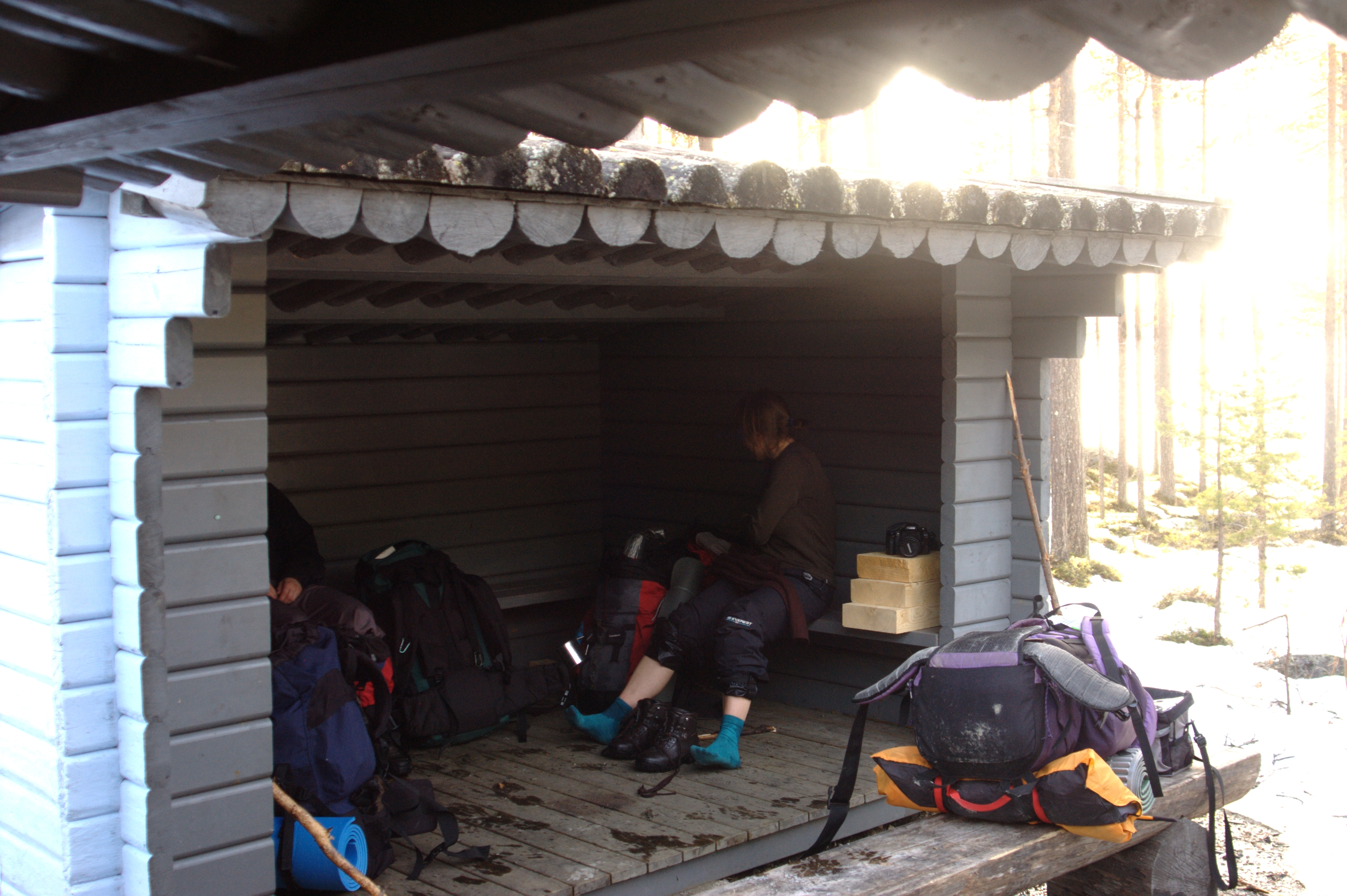 Wind shelter in Björnlandet National park